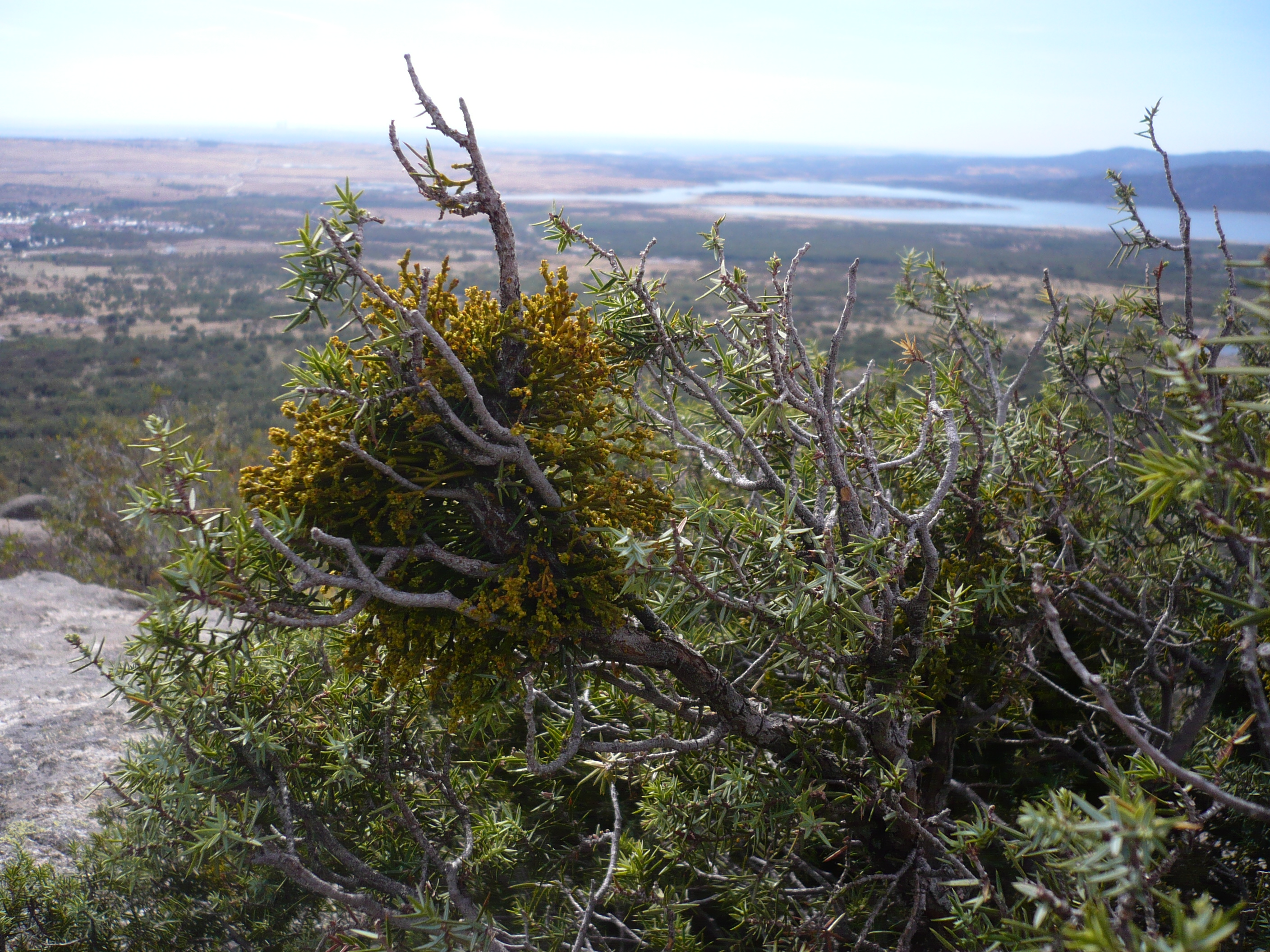 Arceuthobium oxycedri in a Juniperus oxycedrus plant, at the Sierra de Guadarrama.